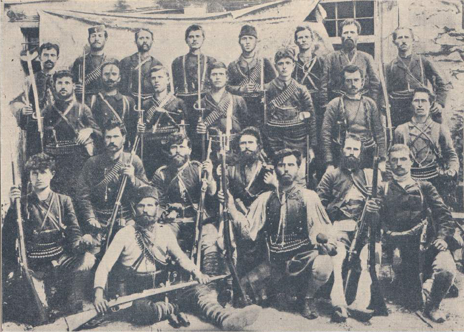 Cheta of IMARO voevodas Nikola Andreev and Manol Rozov from Kastoria